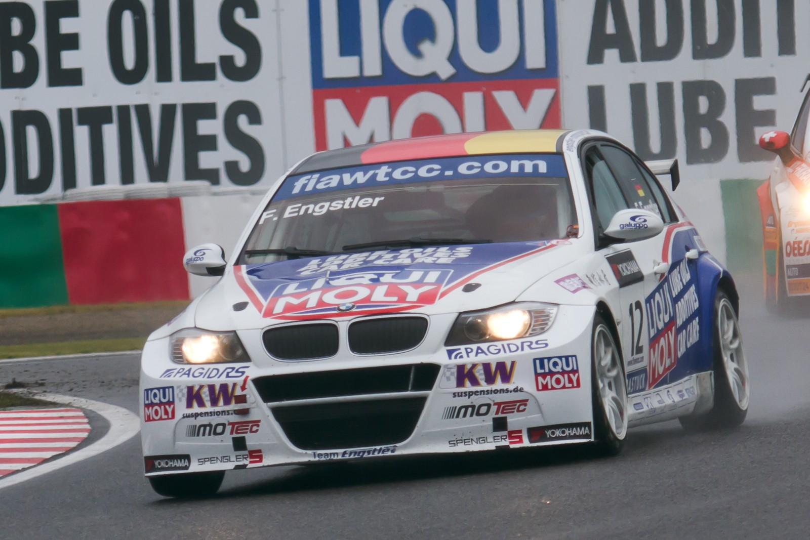 World Touring Car Championship 2011 Race of Japan: Franz Engstler (Liqui Moly Team Engstler) during the 1st practice session on Saturday.